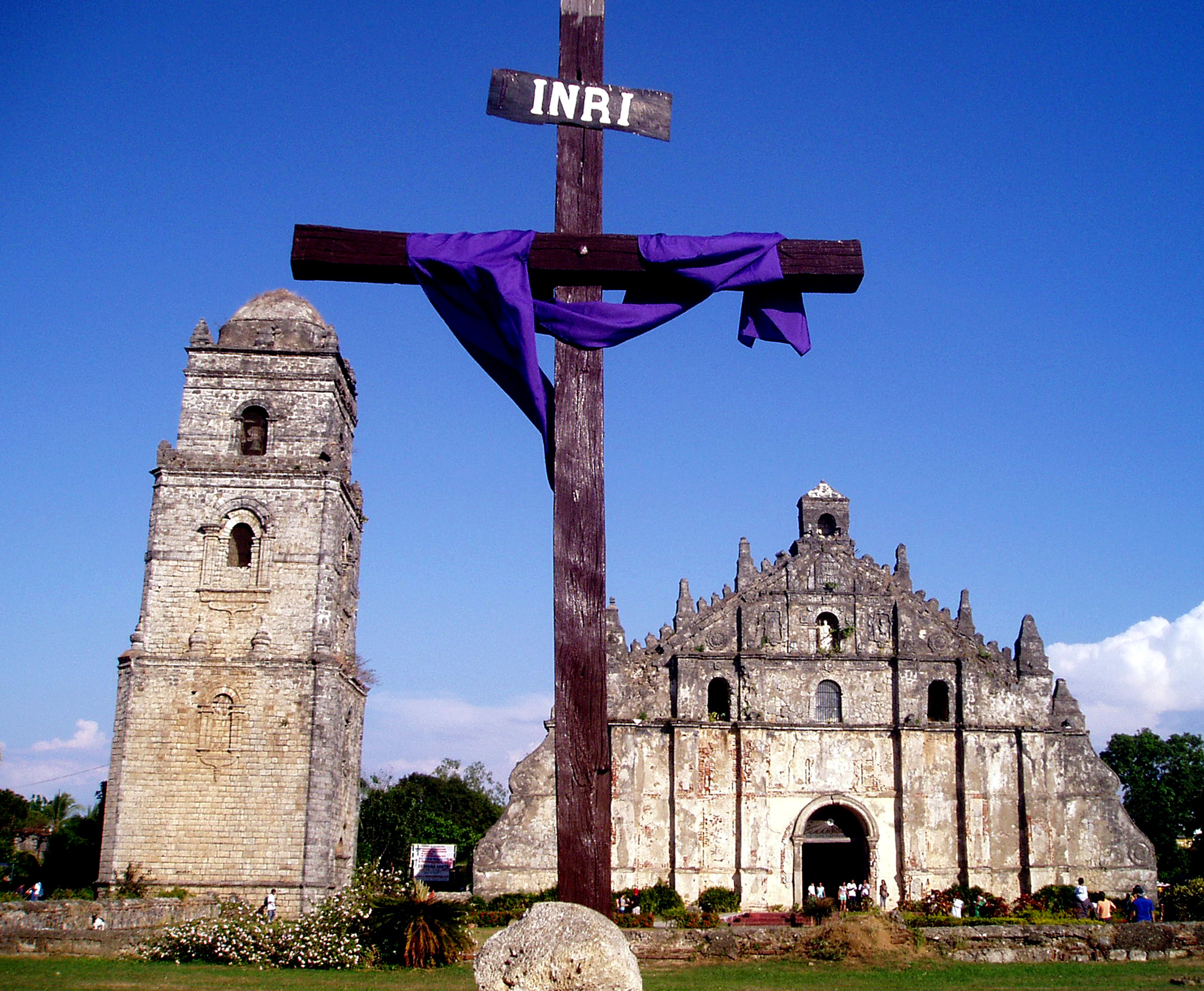 Paoay Church at Ilocos Norte